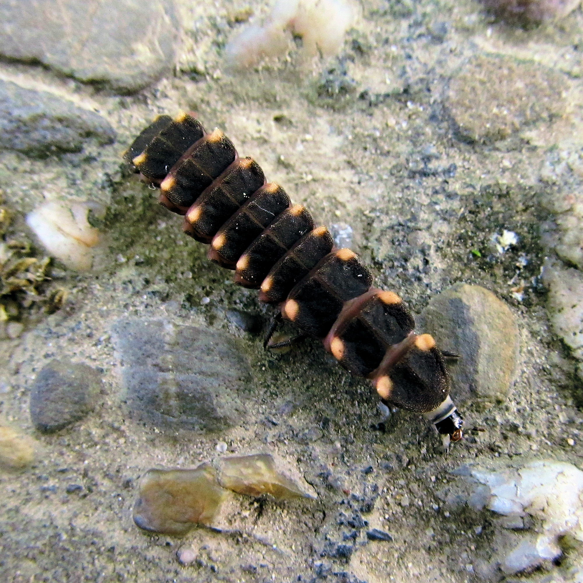 Lampyris noctiluca, Larva